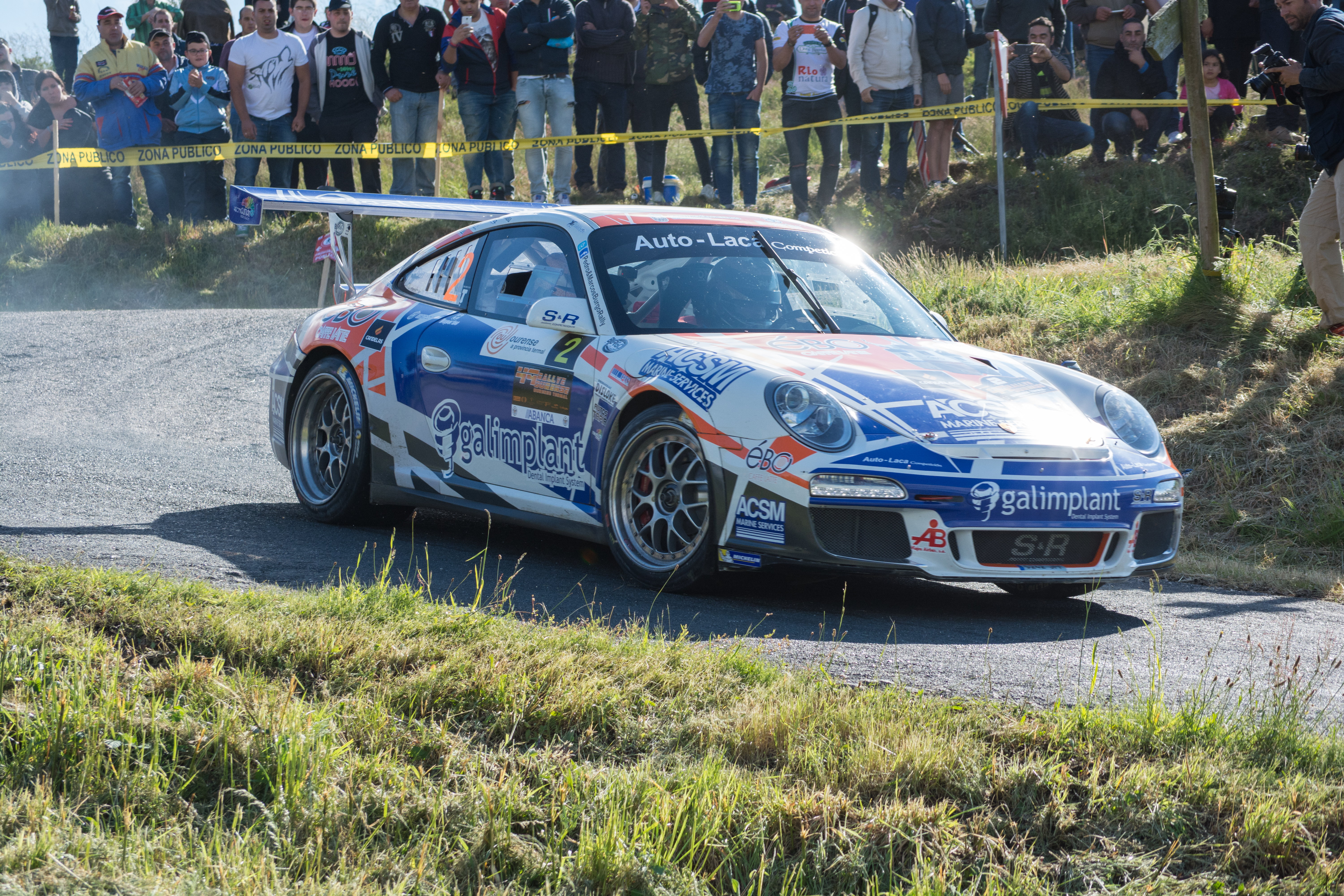 '49 TRally de Ourense ' in 2016, in the city of Ourense, scoring for the CERA.